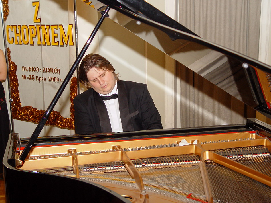 XIV "Summer with Chopin" in Busko-Zdrój